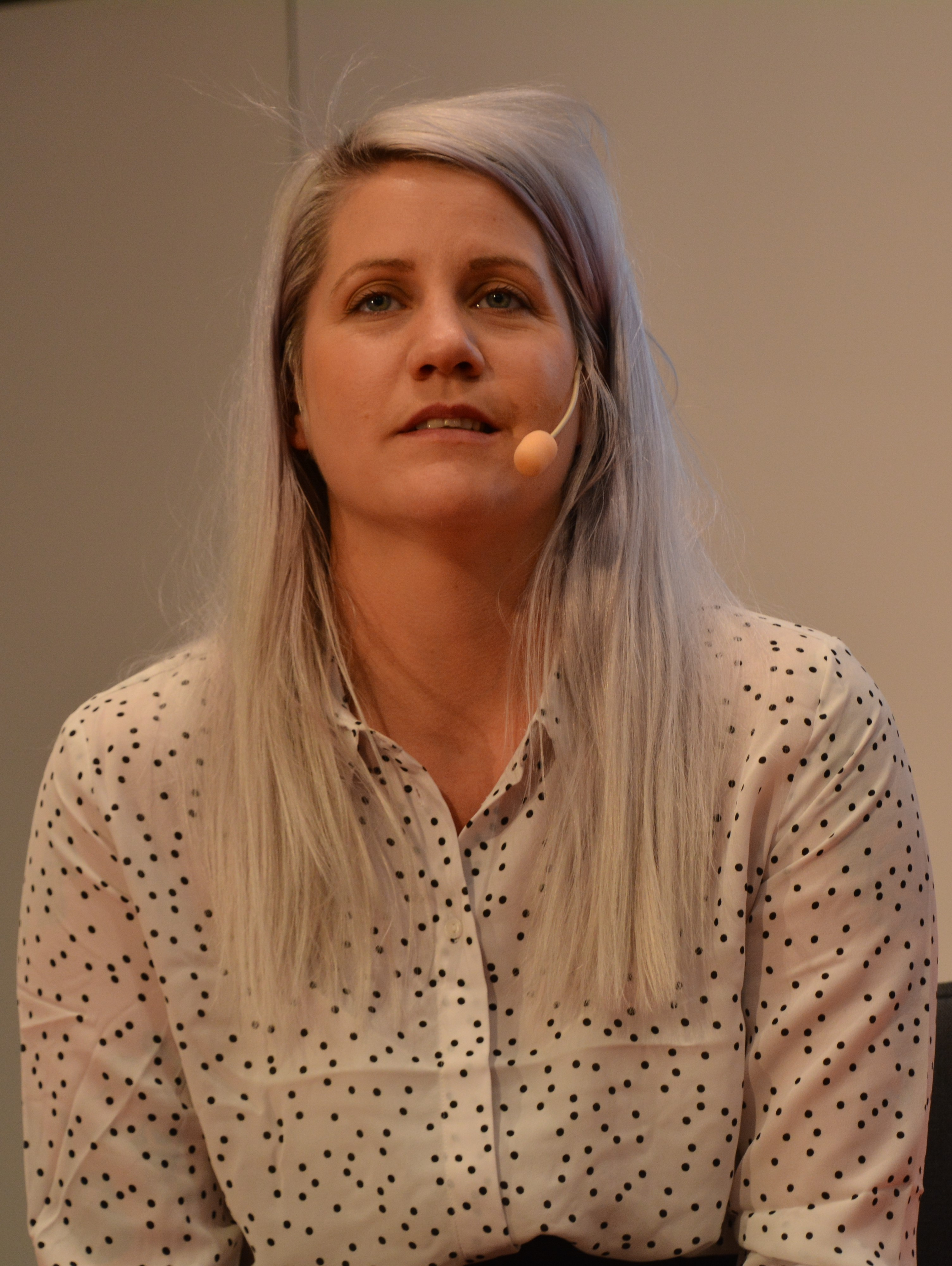 Swedish radio host Emma Knyckare.